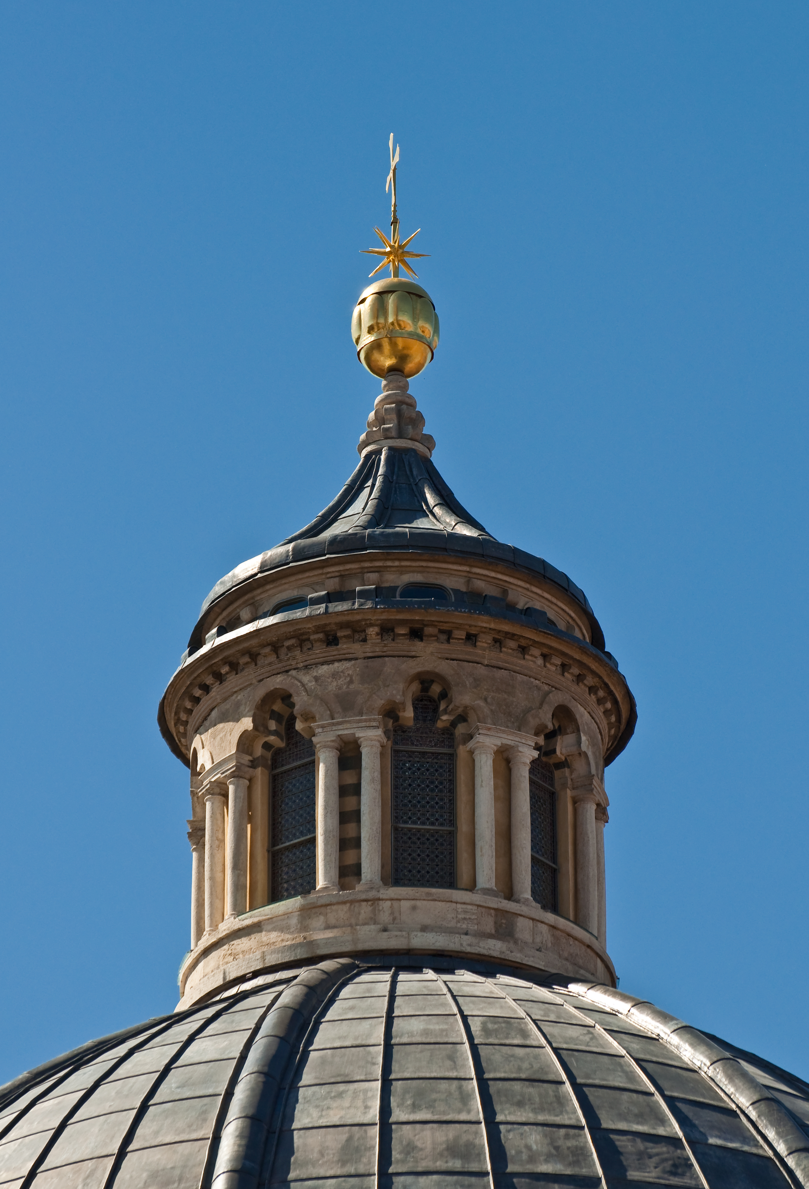 Top of the dome of Siena's Cathedral